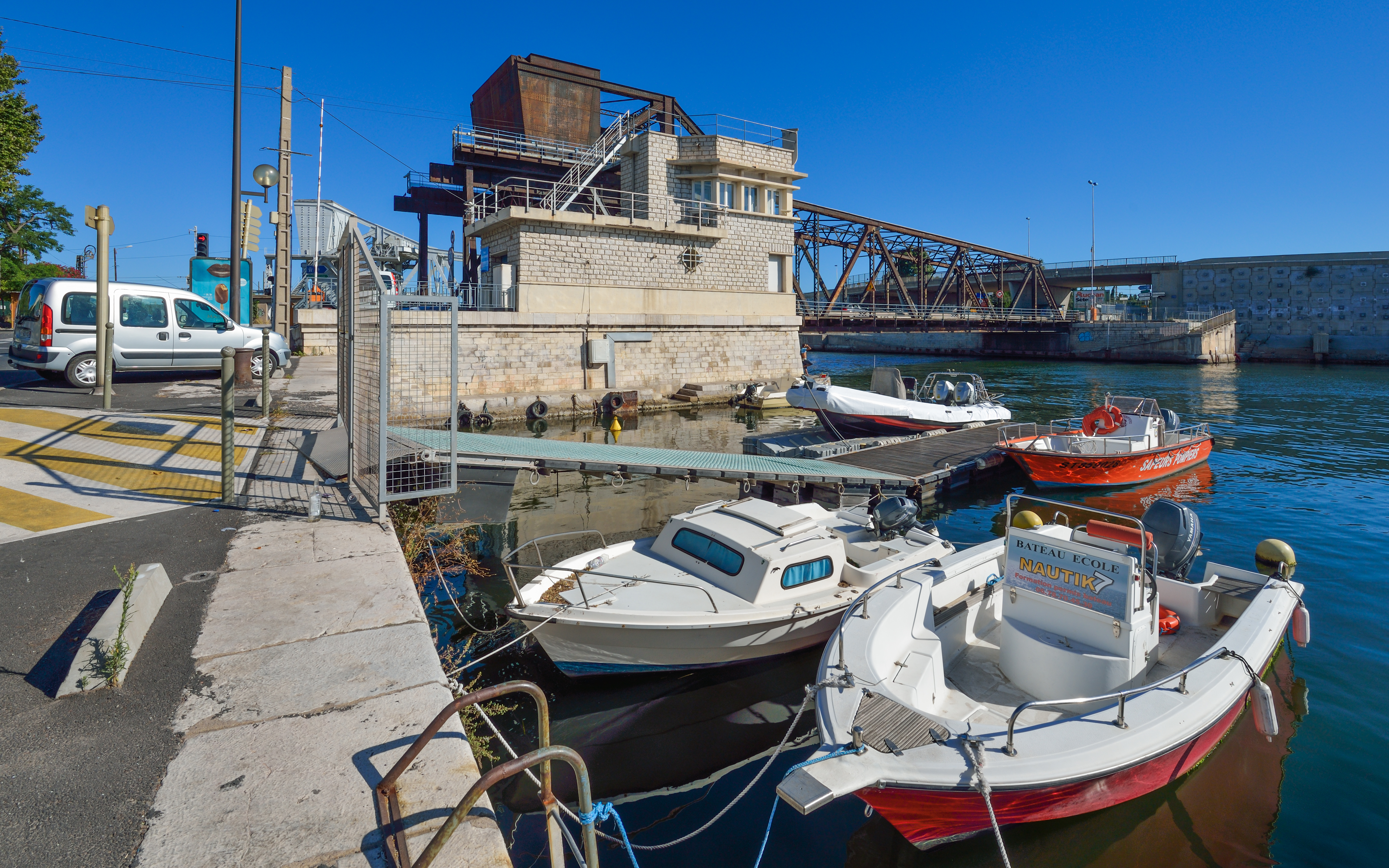 Sadi-Carnot Bridge, bascule bridge in closed position, from Bosc Embankment. Sète, Hérault, France